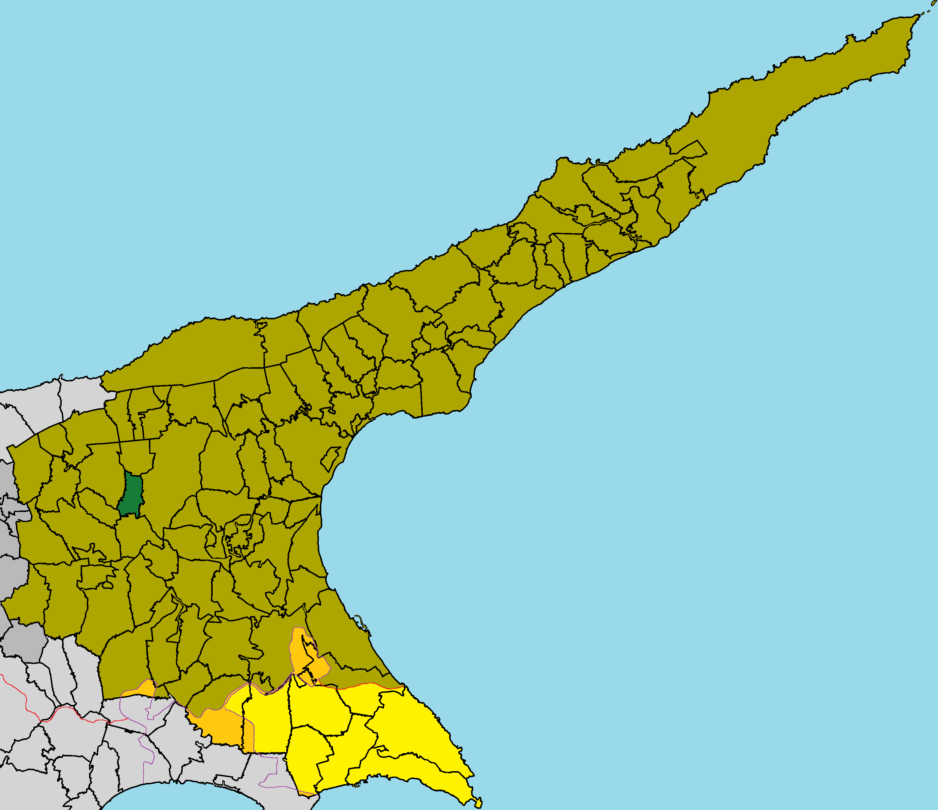 Psyllatos in Famagusta District (de jure).